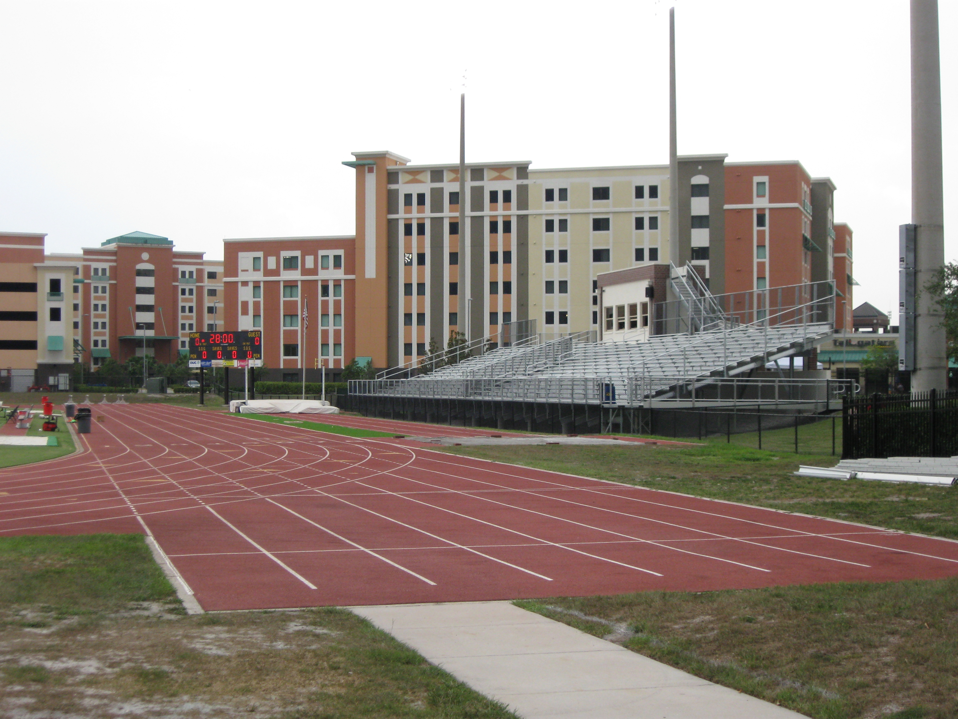 The new main stand at the UCF Soccer and Track Stadium, opened in 2011.